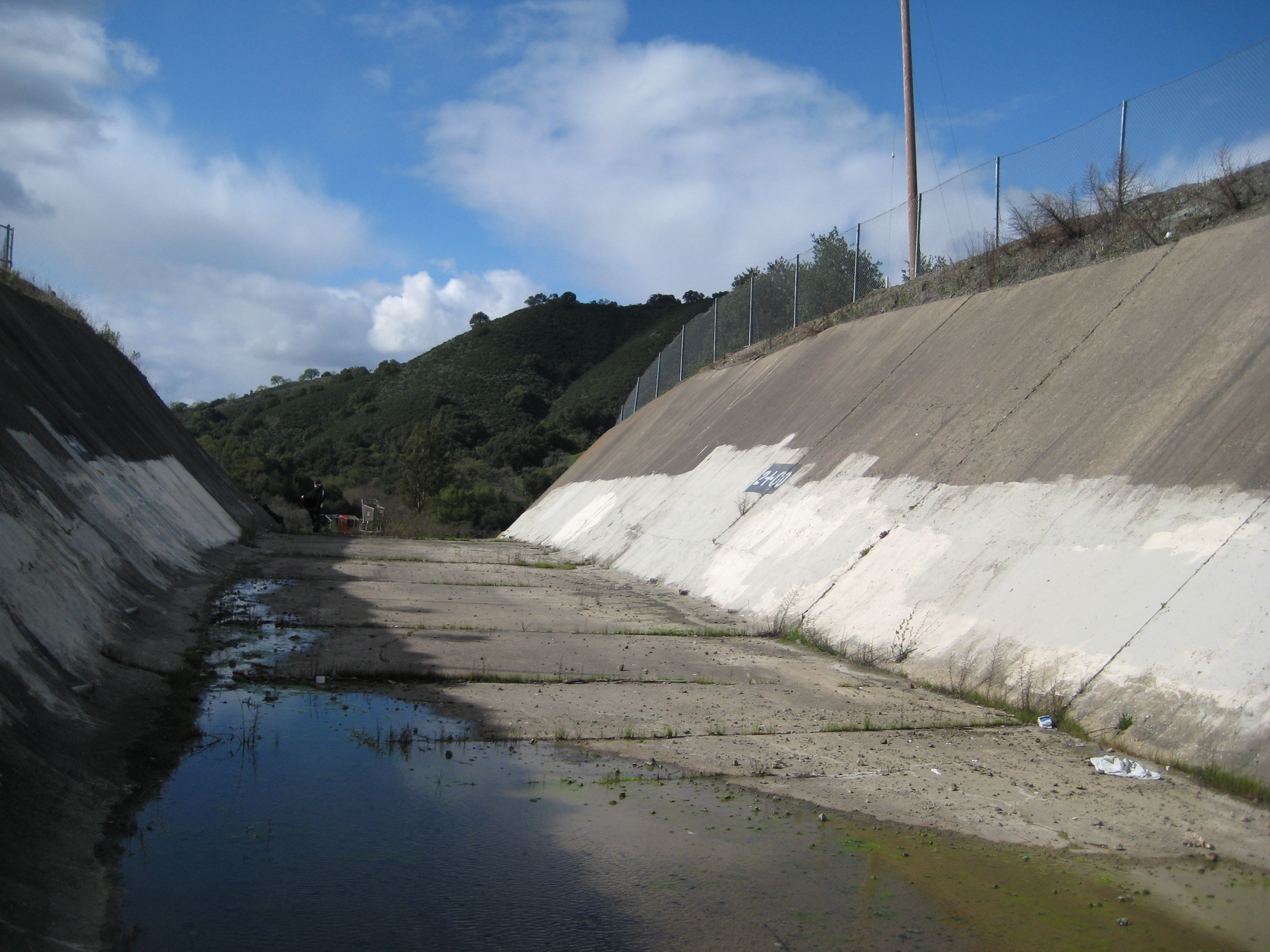 Guadalupe Reservoir spillway. I took this picture on March 14th of 2008. It can also be found at